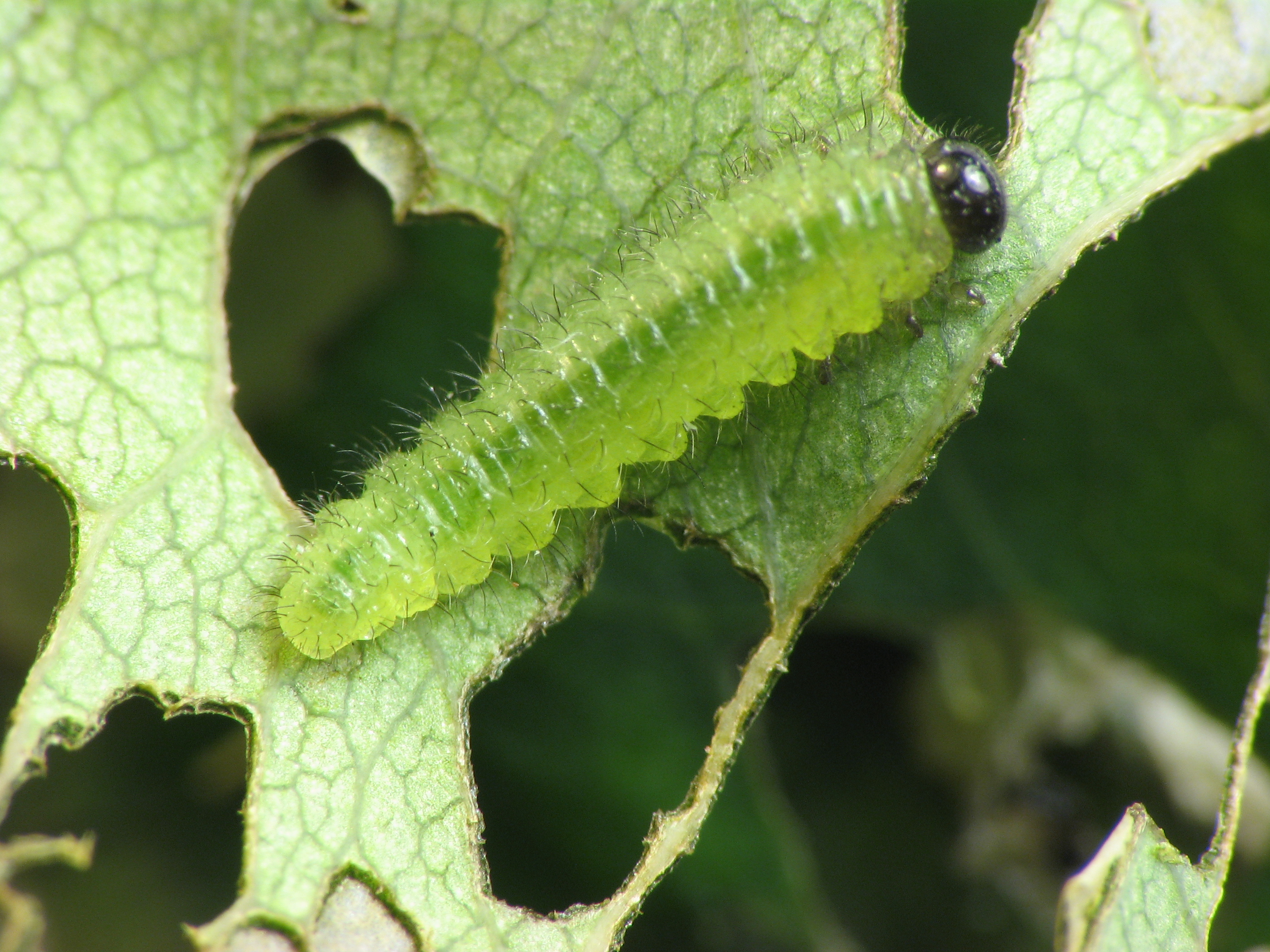 Bristly Rose Slug, Cladius difformis, larva. Several larvae ranging in size: 4.5-12 mm. Willow Grove, Montgomery County, Pennsylvania, USA.